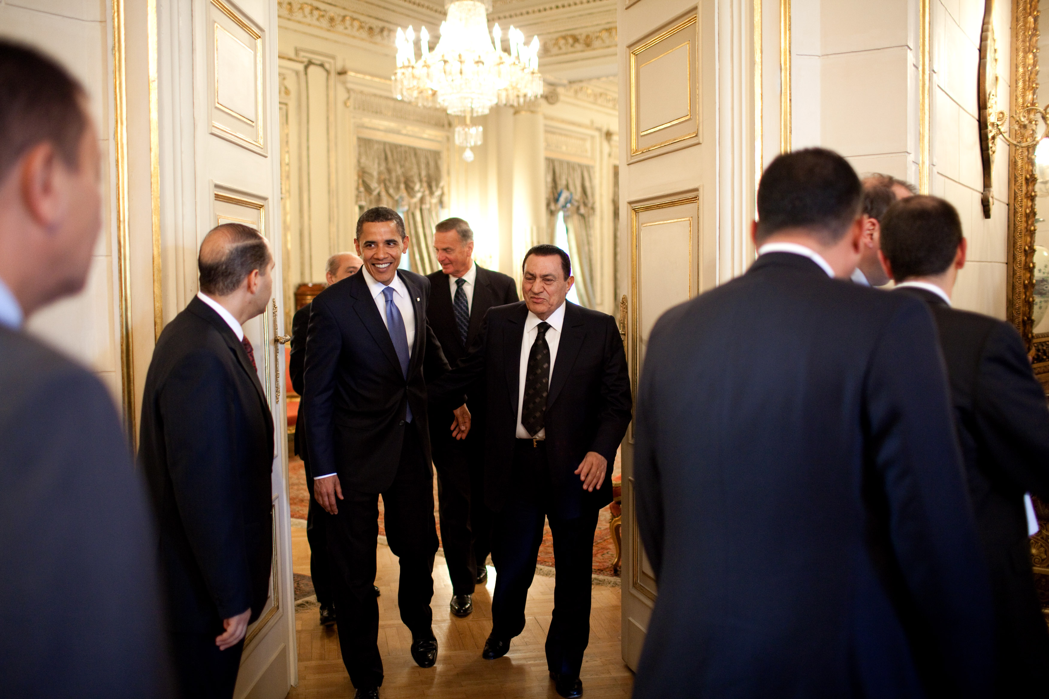 President Barack Obama leaves a meeting with Egyptian President Hosni Mubarak in Cairo, Egypt, June 4, 2009. (Official White House photo by Pete Souza) This official White House photograph is in the public domain from a copyright perspective, so while restrictions such as personality or privacy rights may apply, in general, manipulations are allowed.